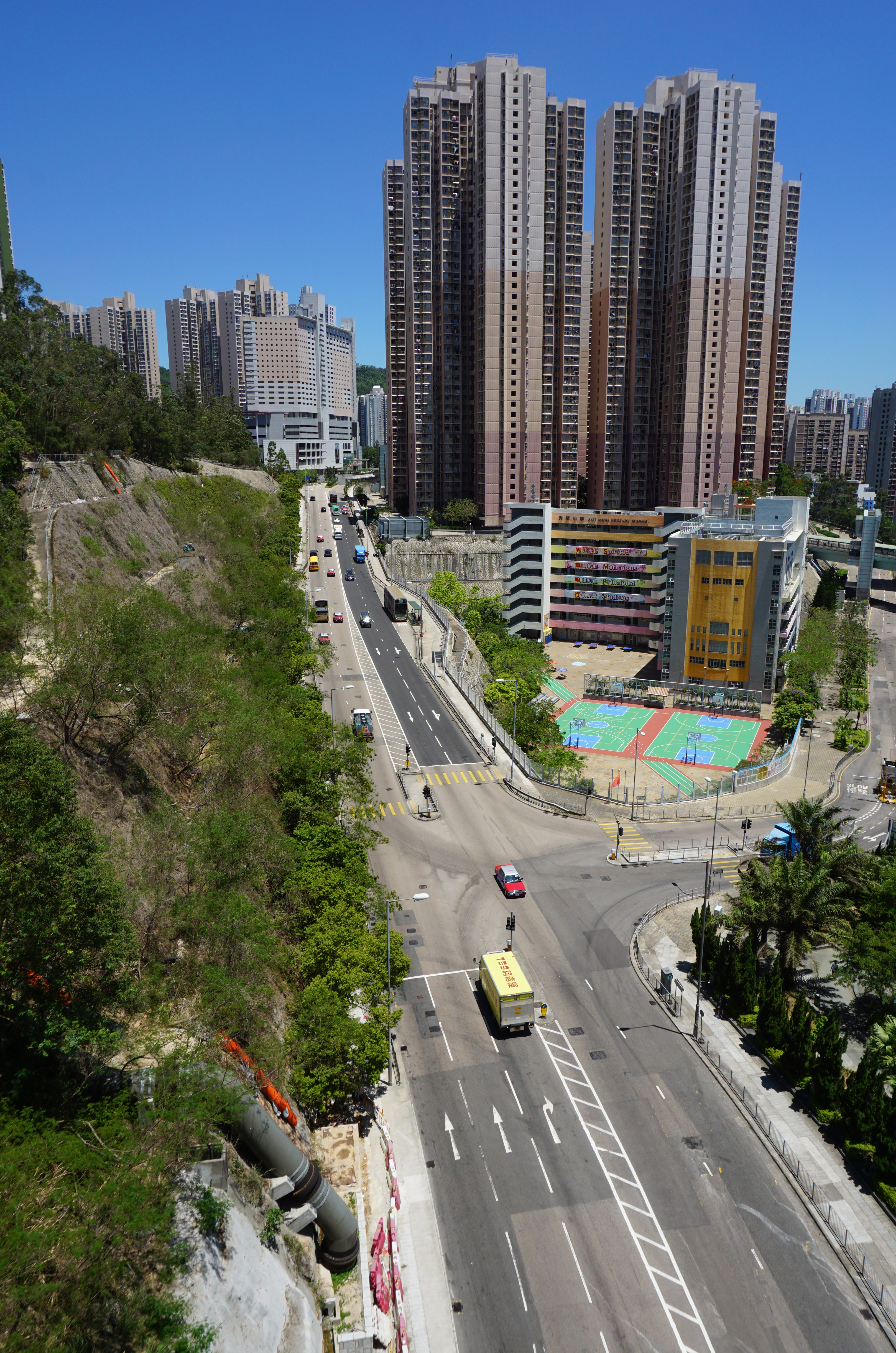 Sau Mau Ping Road in Sau Mau Ping, Hong Kong.